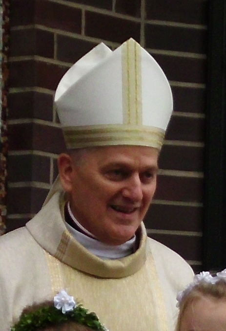 Parish of the Nativity in Poznań 21 June 2014